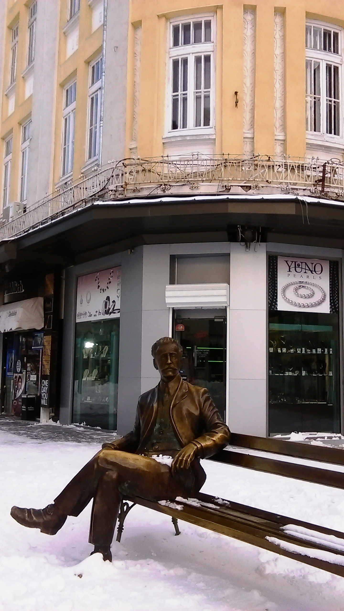 A street monument to the Bulgarian architect Dabko Dabkov before a hotel projected by him in early XX century